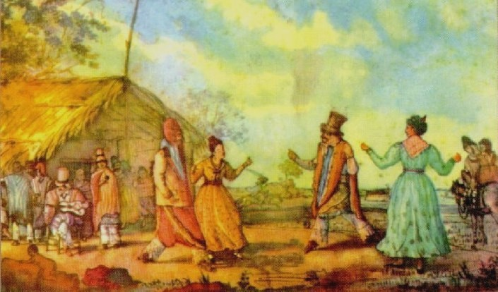 "El cielito". Aut: Carlos Enrique Pellegrini. Acuarela. 1829. Argentina.